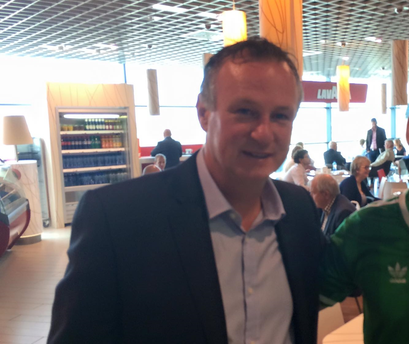 Michael O Neill, Northern Ireland football manager, on the left